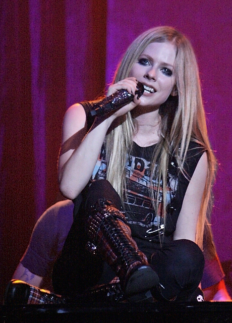 Avril Lavigne singing while sitting on a piano, during the Italy leg of her Black Star Tour on September 10, 2011. Photographed on a Canon EOS 1000D.